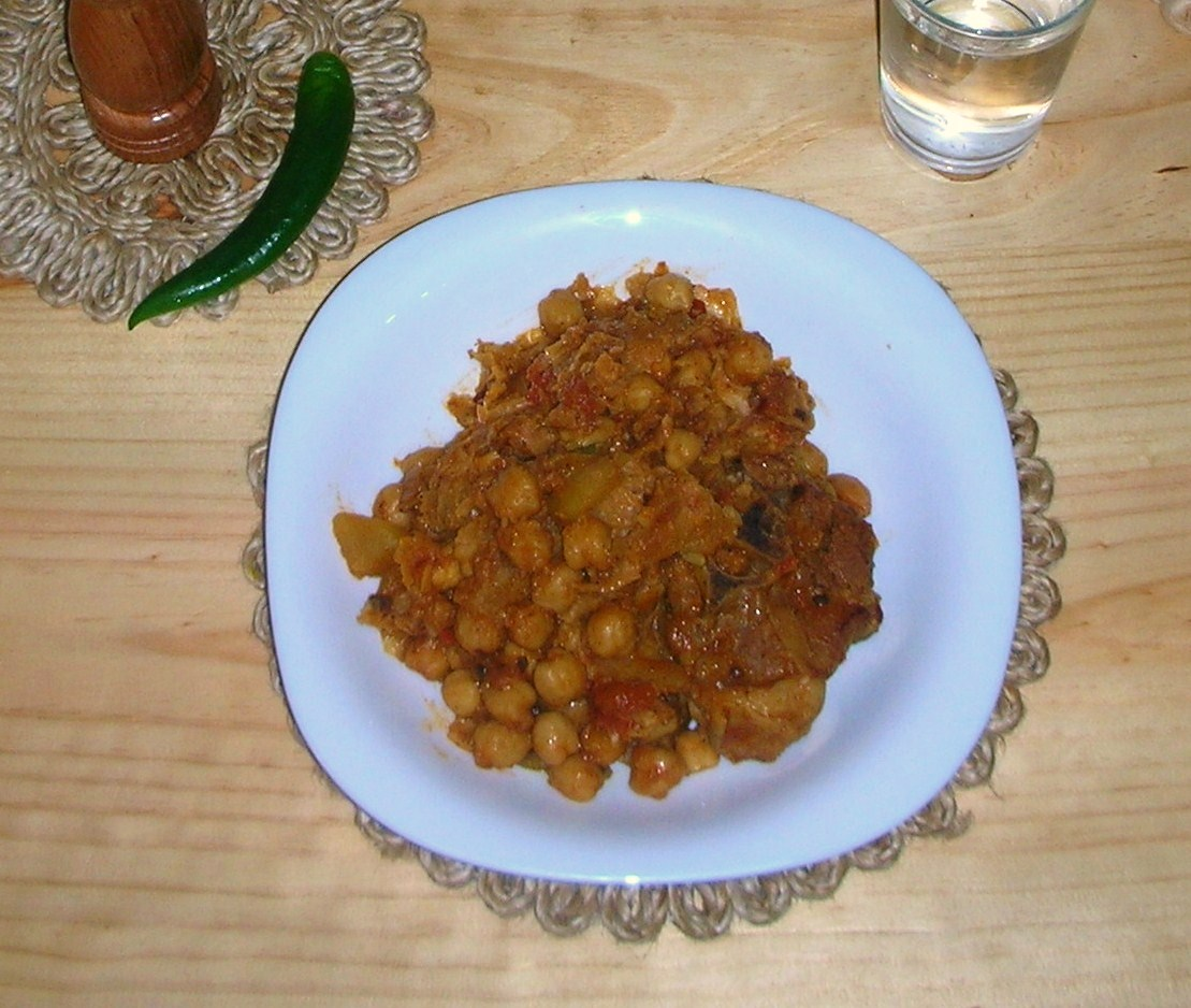 Chakhchoukha. Marqa already mixed with Rougag on a plate ready to eat